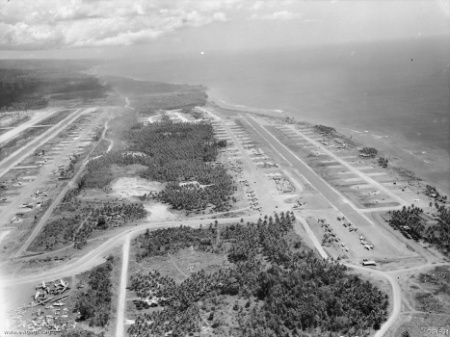 AWM image OG1934. An aerial view of Wama Airstrop at Morotai in April 1945. The figher airstrip and some of the dispersal areas are visible.